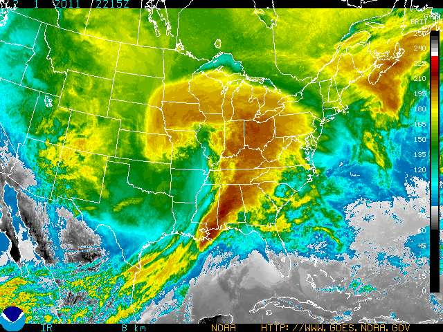 NOAA Satellite photo of Central US blizzard 2-1-11